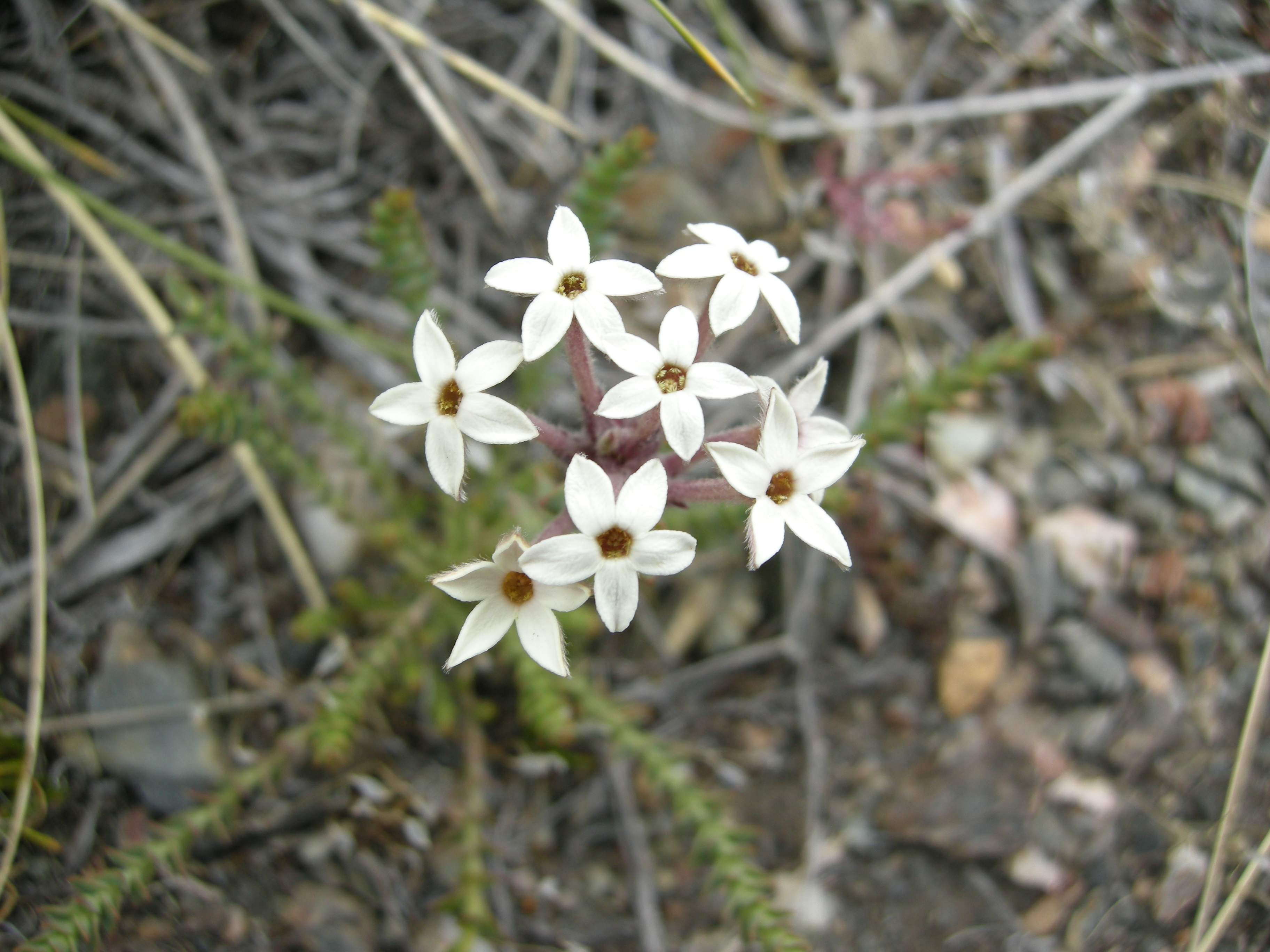 Flowers of the species Arjona patagonica. Picture taken in Belgrano peninsula, in the Perito Moreno national park (Santa Cruz provincia, Argentina).